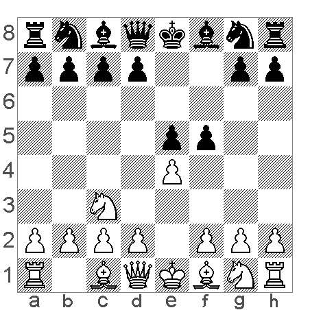 chess diagram Anderssen gambit Source: CBlight + my processing